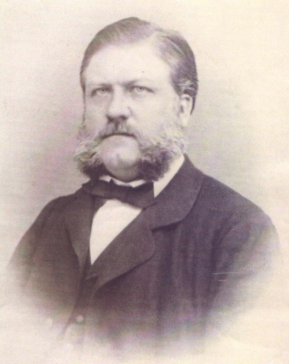 Moritz Gröbe (1828-1891)